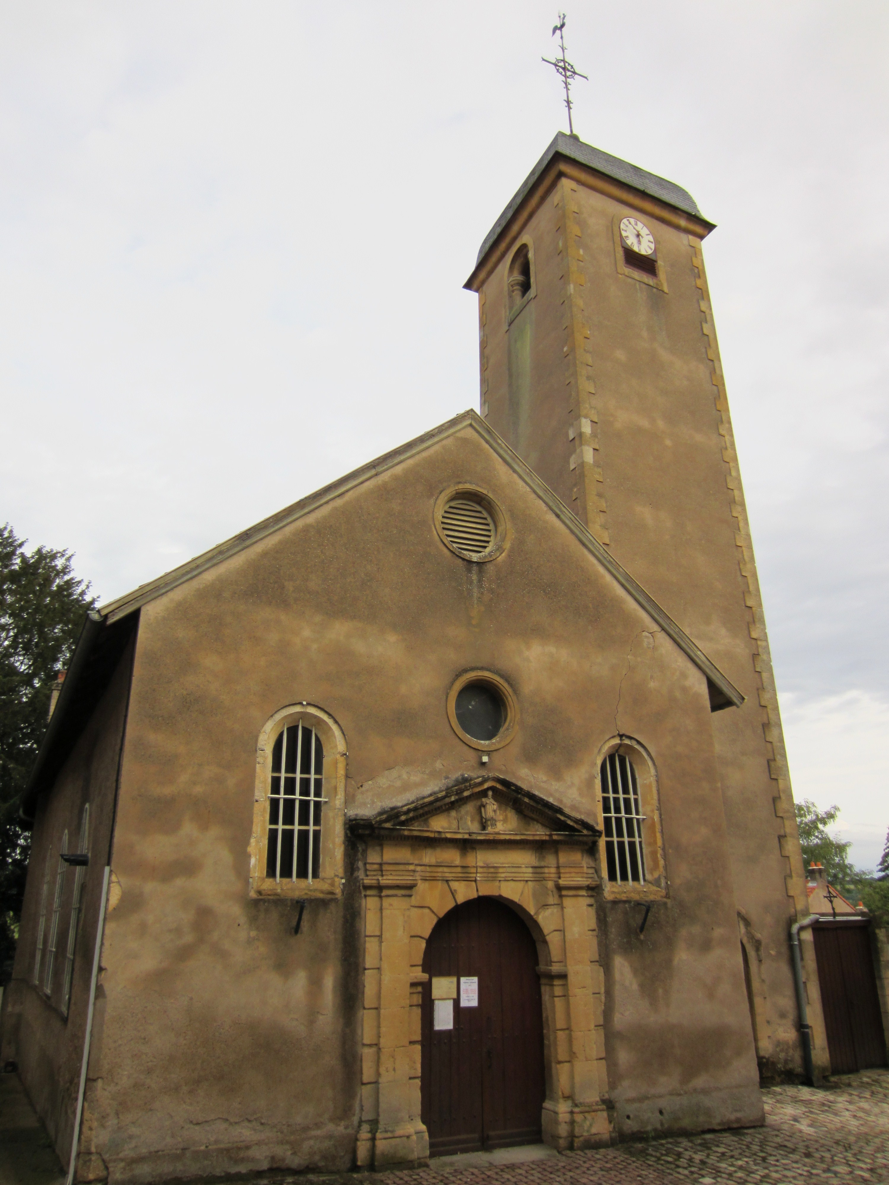 Description eglise saint clement Dornot Date12 September 2011Sourcemon appareil photoAuthorAimelaimePermission(Reusing this file) eglise saint clement Dornot